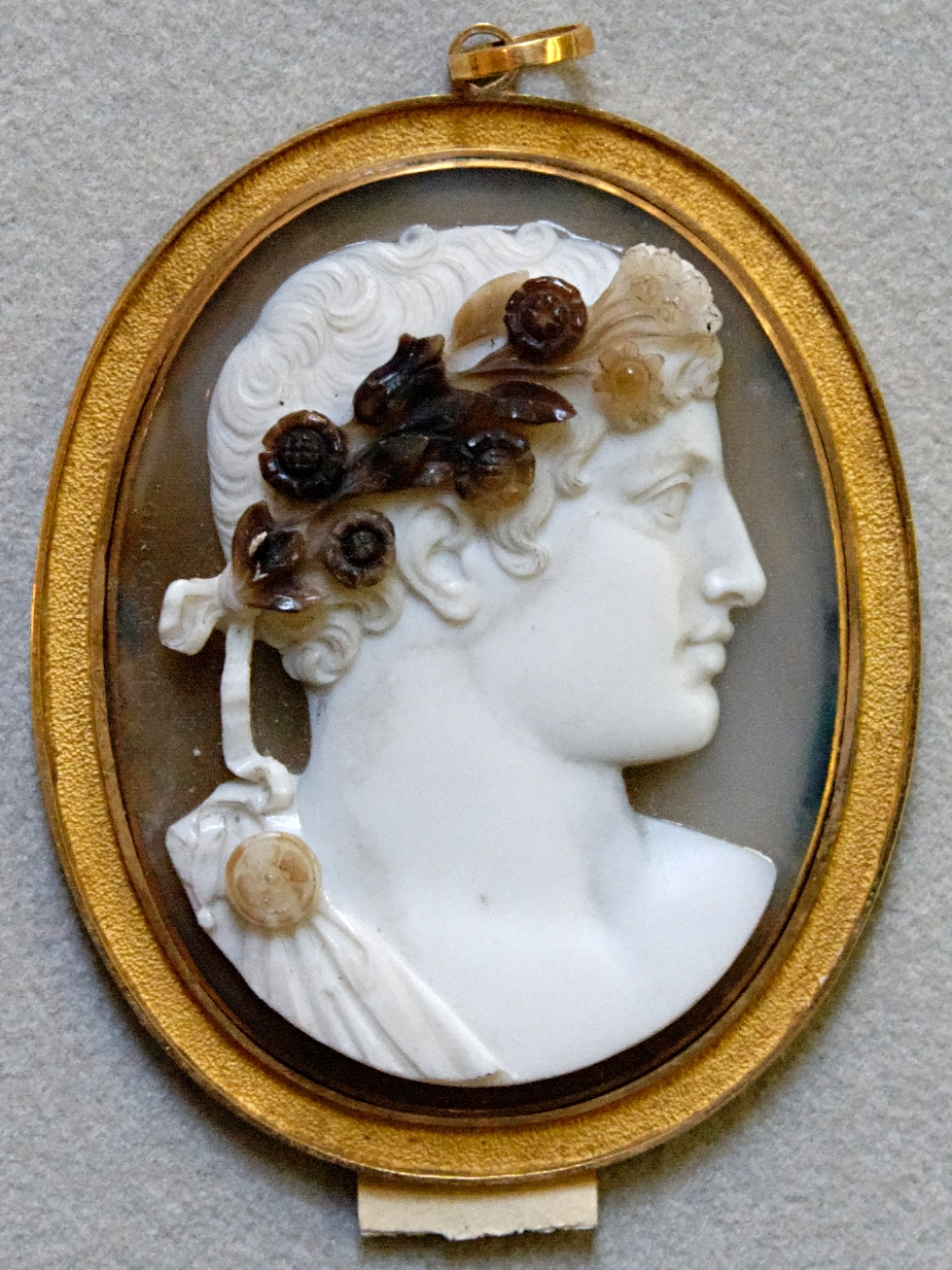 Allegory of Spring, sardonyx cameo.